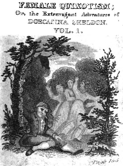 Frontispiece from: Tabitha Tenney. Female quixotism: exhibited in the romantic opinions and extravagant adventures of Dorcasina Sheldon. Boston: J. P. Peaslee, 1825.